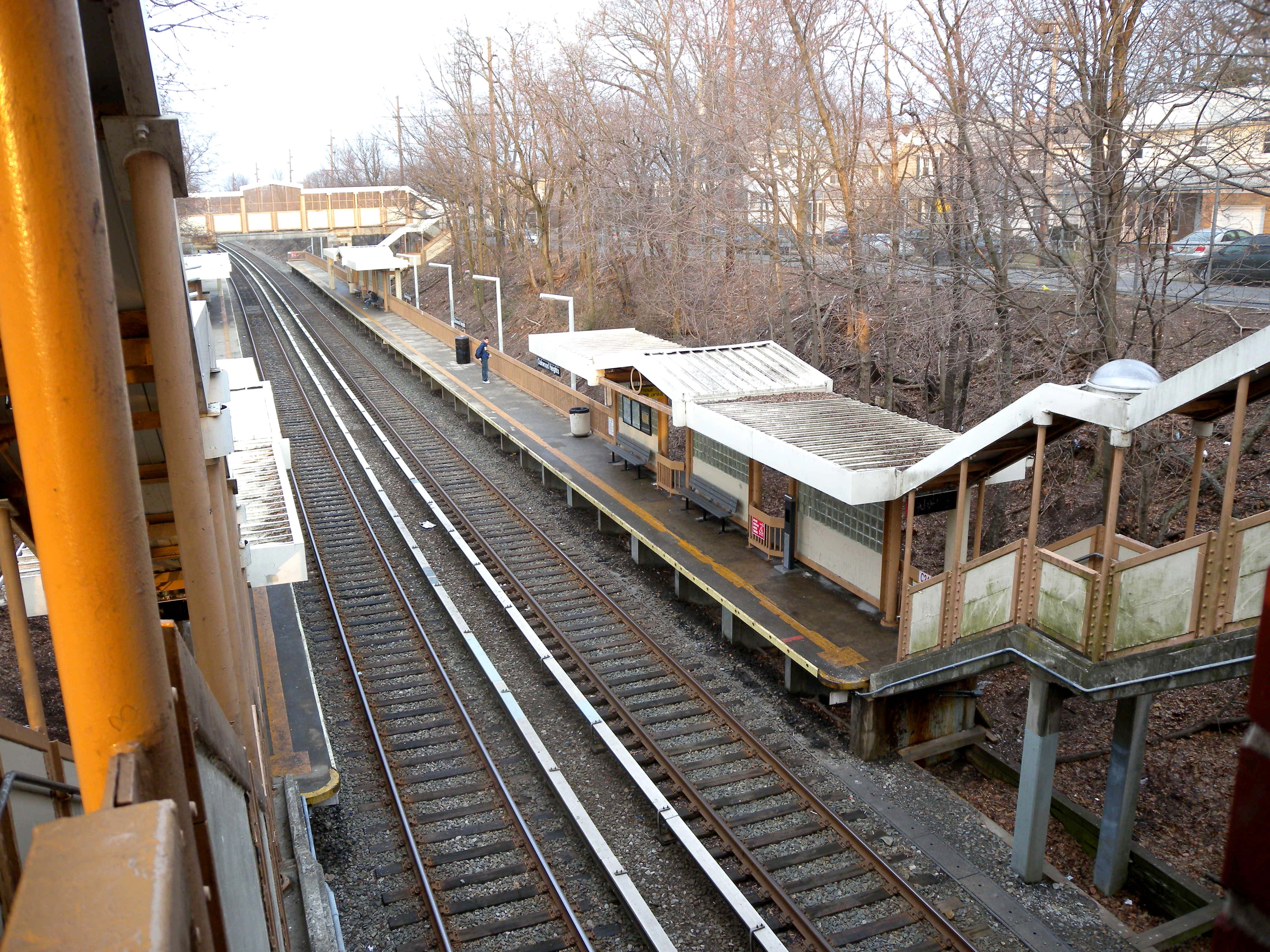 Looking east at northbound platform of Oakwood Heights station from the street overpass. See also File:Oakwood 'Heights SIR jeh.JPG